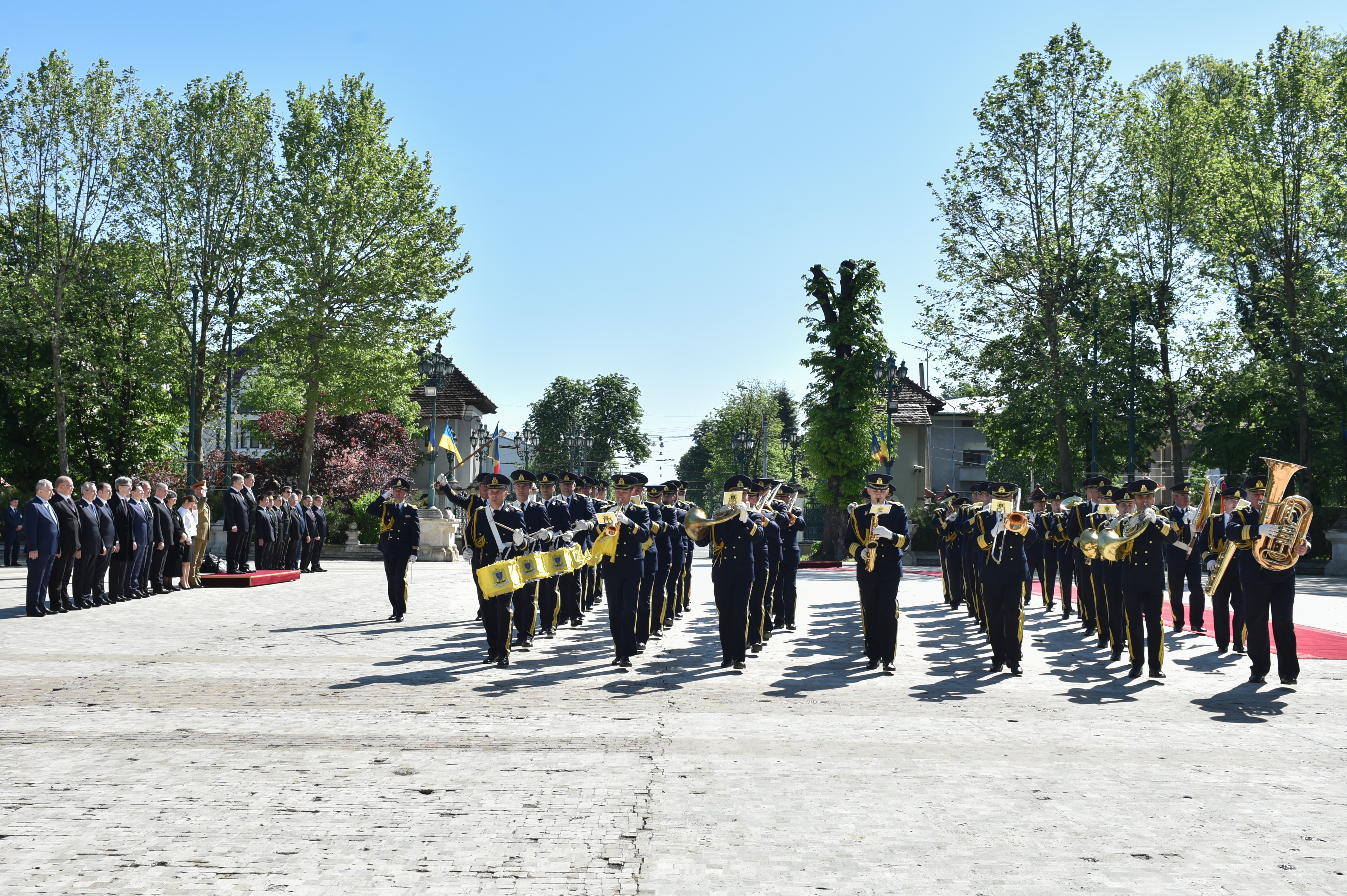 Ukrainian President Petro Poroshenko during his visit to Bucharest in April 2016.